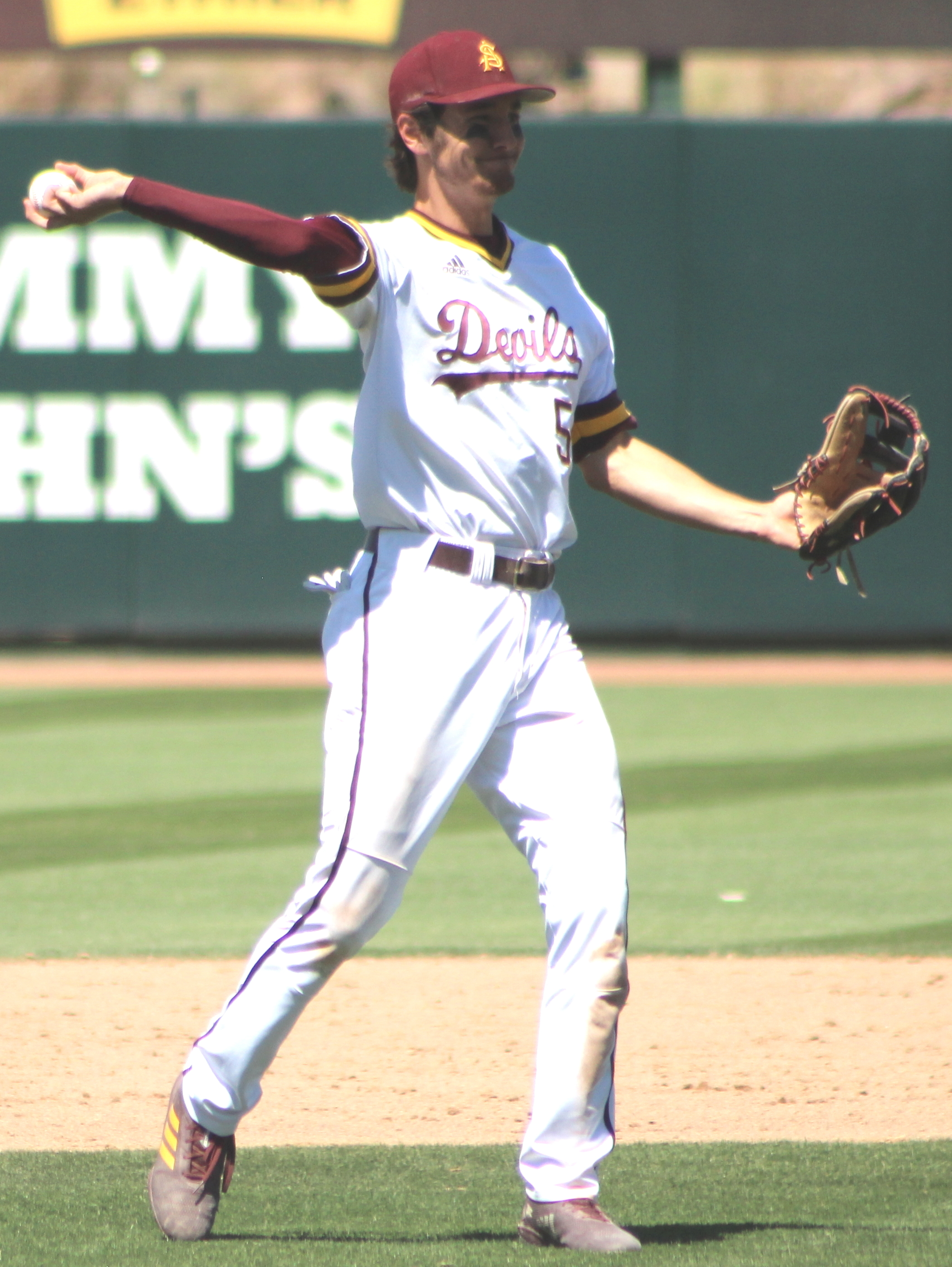 Gage Workman and Alika Williams of the Arizona State Sun Devils during a 2019 game.